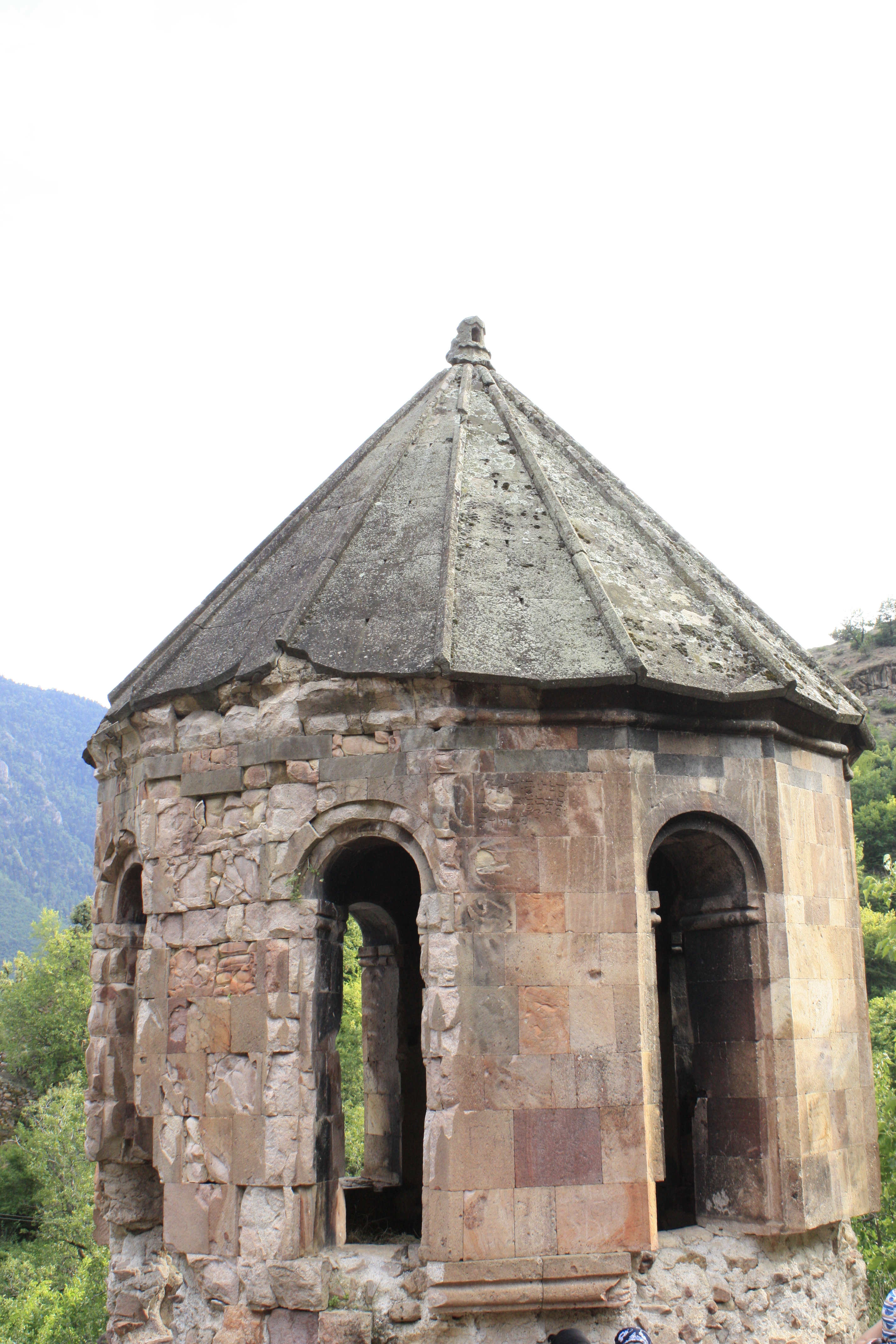 Georgian cathedral Khandzta in historical Georgian region Tao-Klarjeti